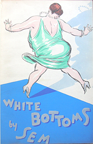 Titlepage of White Bottom Album by SEM